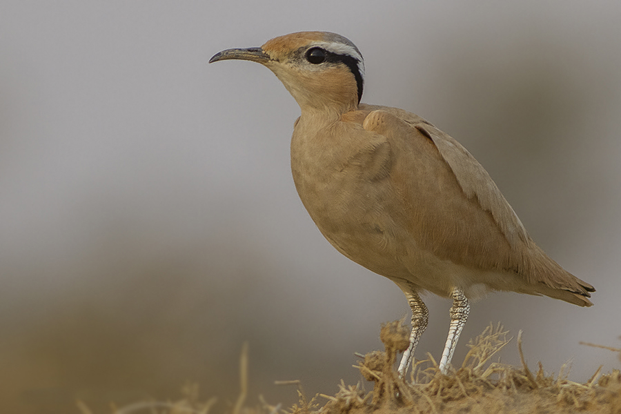 The species Cream-coloured Courser (Cursorius cursor) had been photographed at Tal Chhapar, Churu, Rajasthan, India on February 15th, 2013 during the bird photography tour of GoingWild.